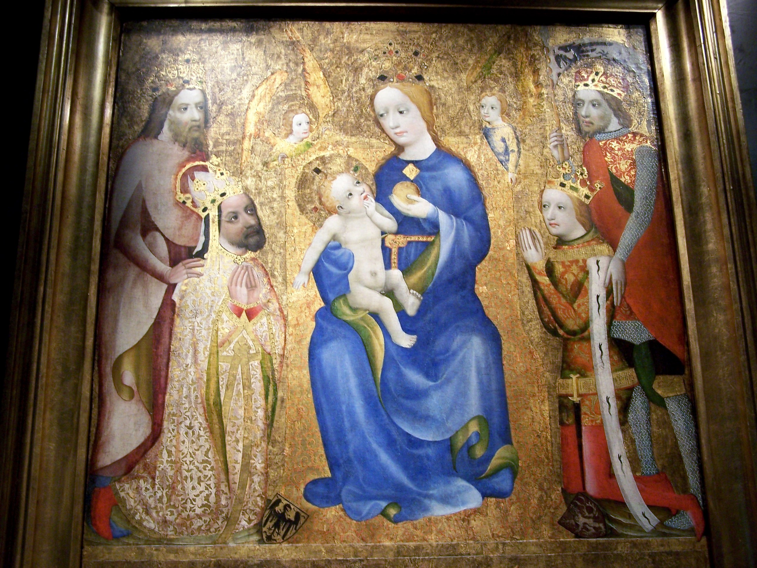 Fragment of votive picture of Archbishop John Ocko of Vlasim.